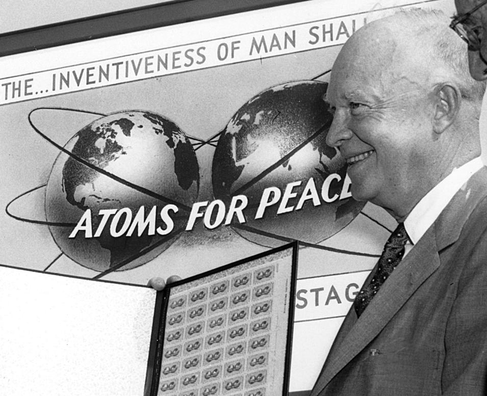 President Eisenhower receives an album of Atoms for Peace stamps.